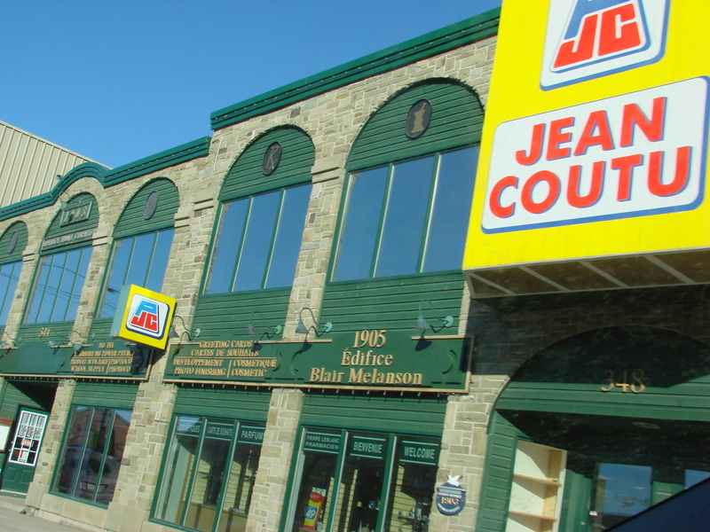 A Jean Coutu, a Québécois company, in New Brunswick.